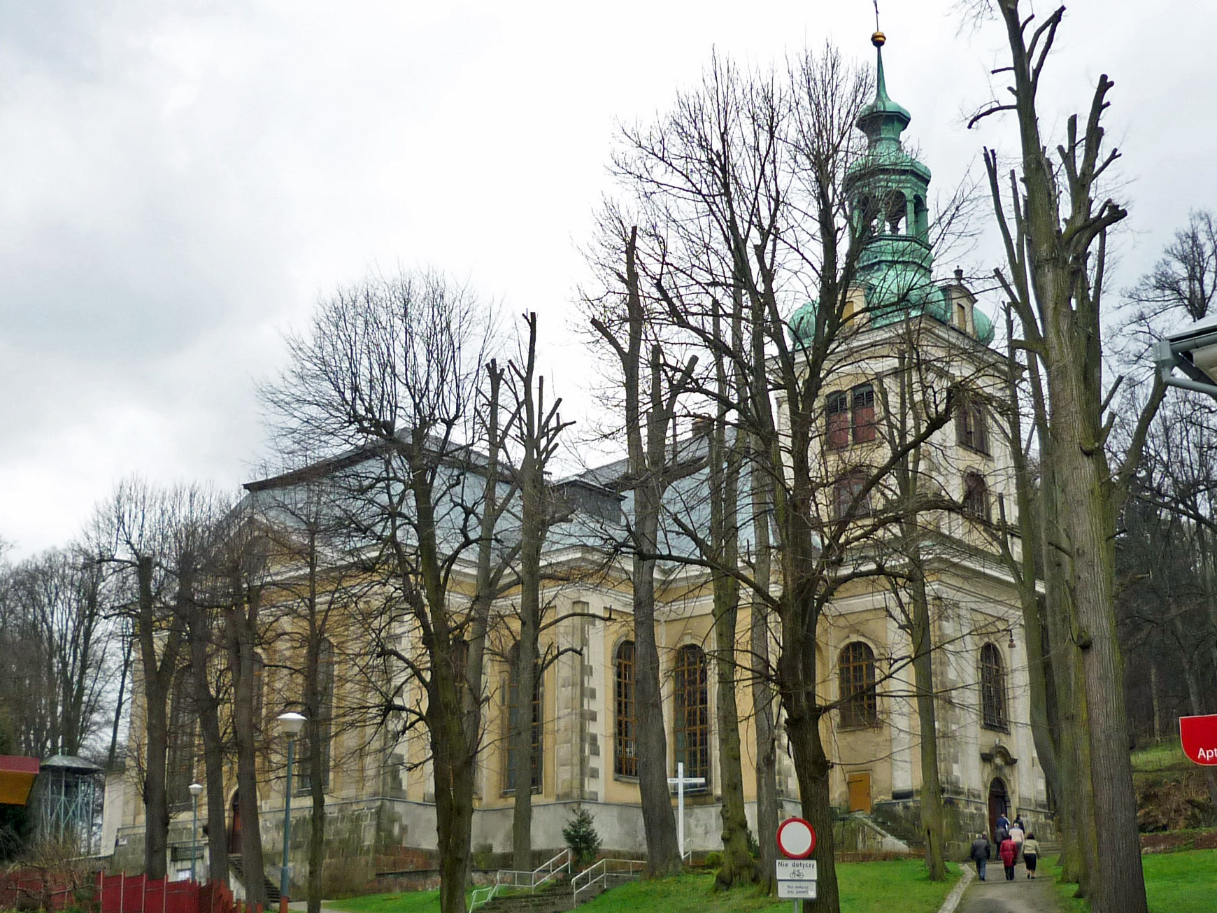 Our Lady of the Rosary church in Kamienna Góra, Poland